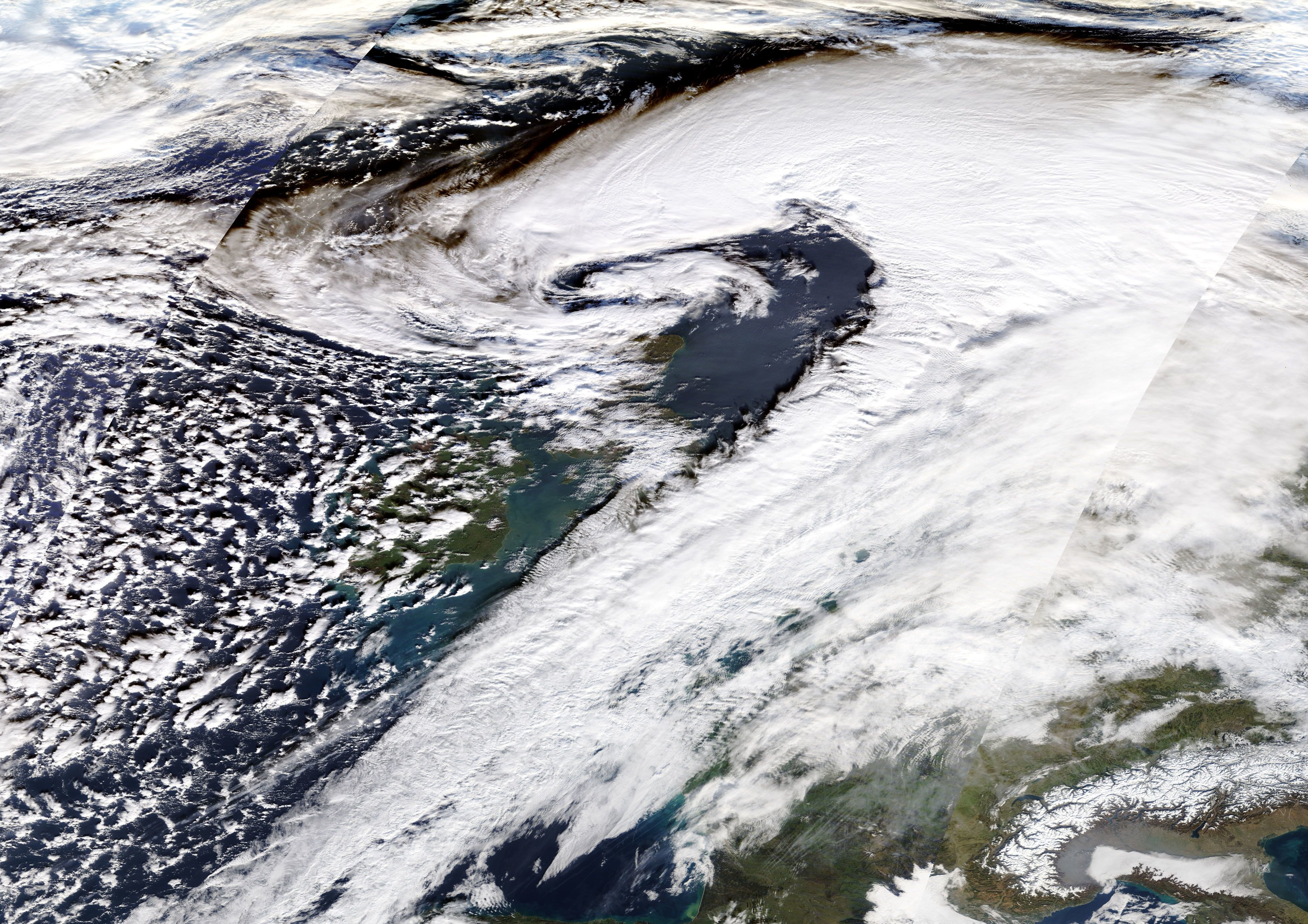 Center of Georgina passing just north of Scotland